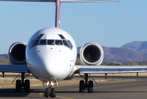 Qantaslink Plane Arriving into Paraburdoo Airport